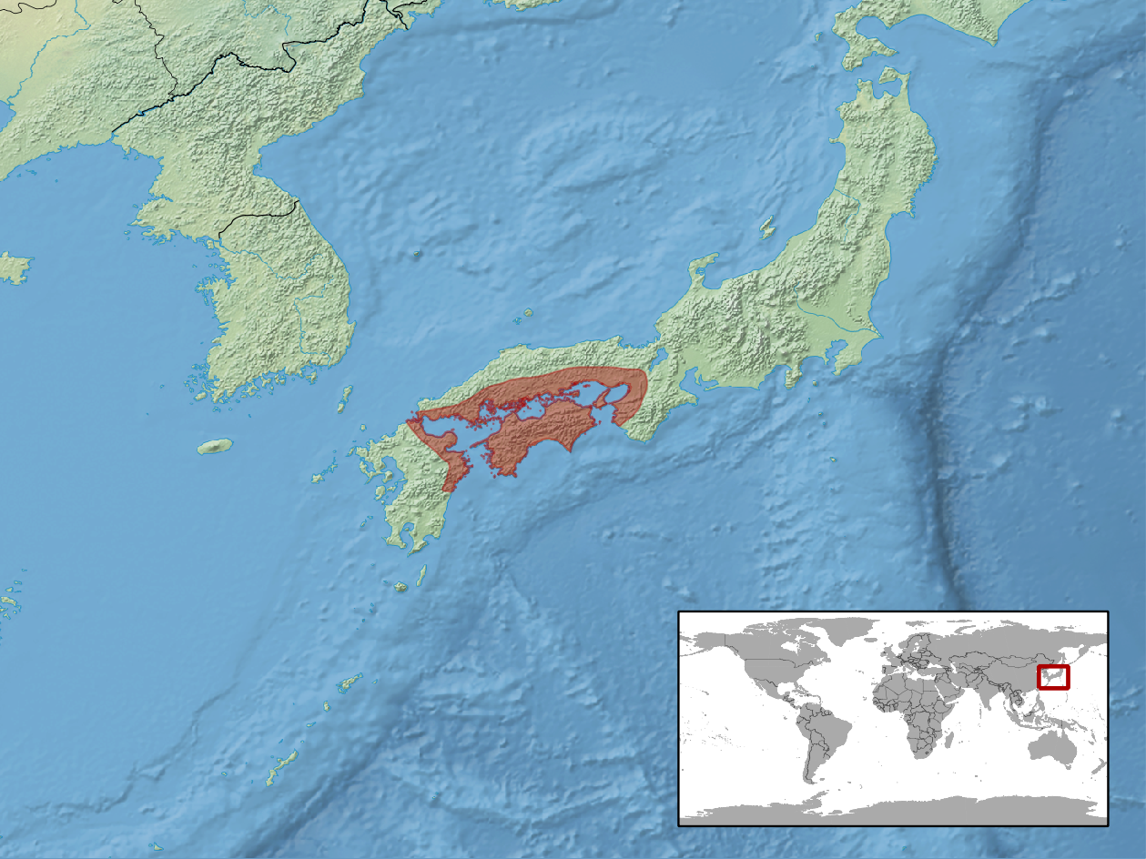 geographic distribution of Gekko tawaensis (Native: Japan (Honshu, Kyushu, Shikoku))